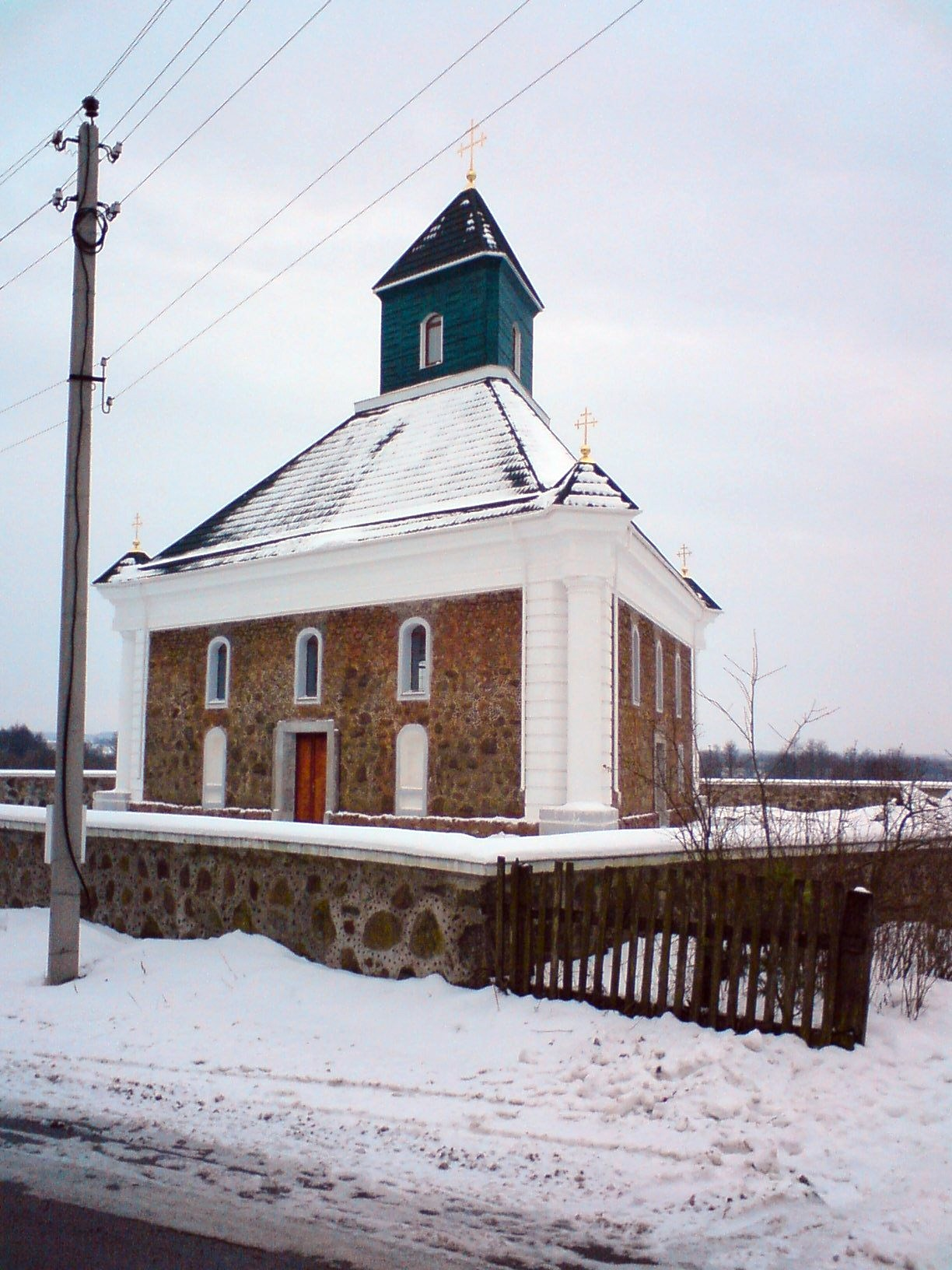 Vialikaja Svarotva. Three-coal church. Old greek catholic church.